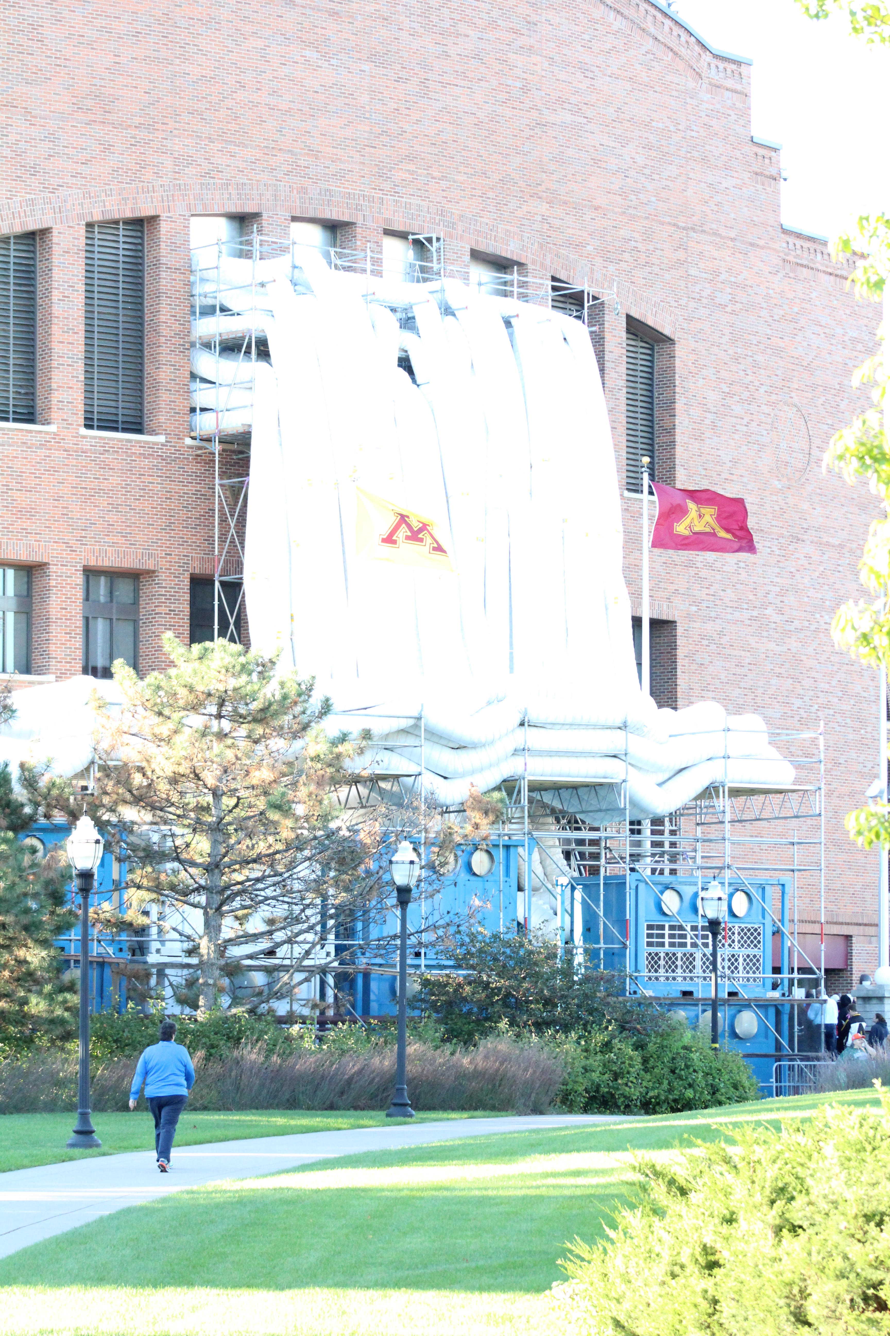 Temporary air conditioning by Aggreko, w:2017 WNBA Finals at Williams Arena, Minneapolis